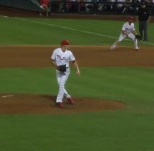 Jake Diekman follows through after throwing a pitch in a game on September 7, 2013